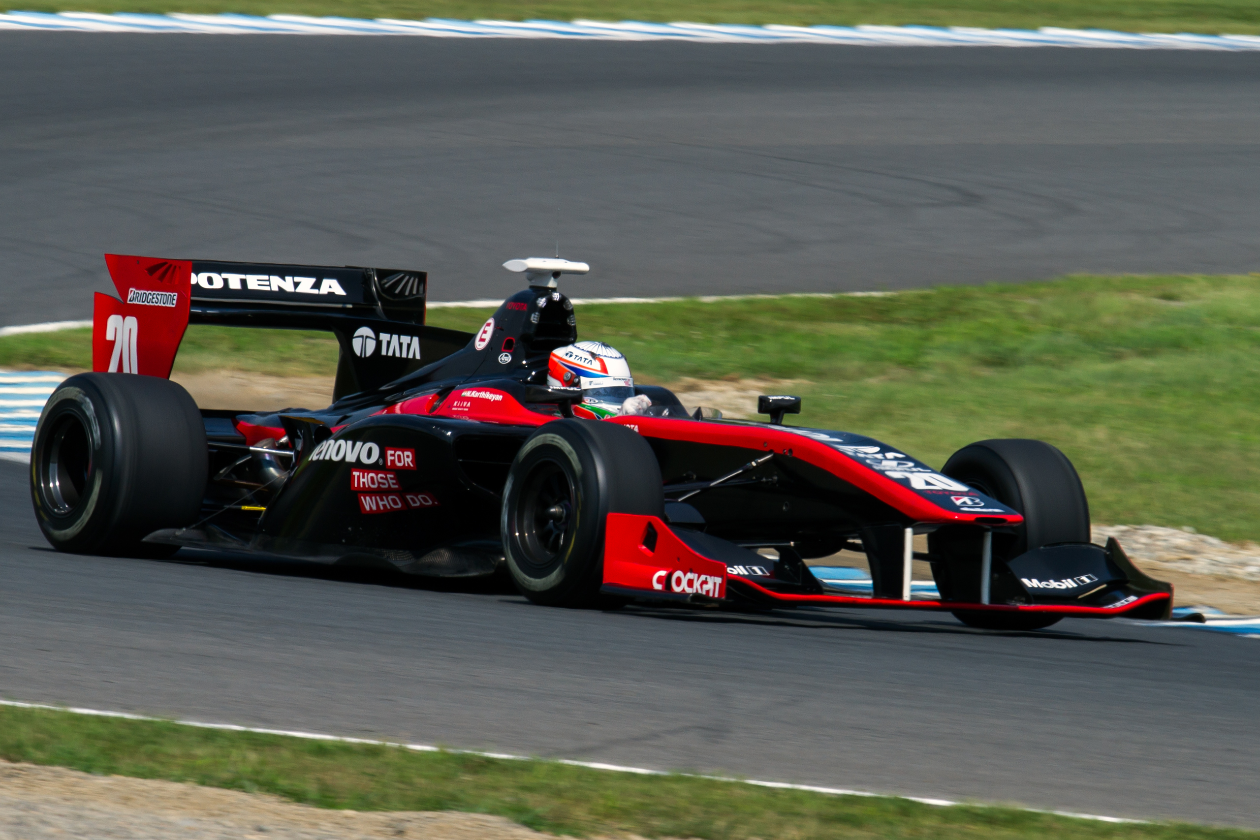 Super Formula 2014 Rd.4 Motegi: Narain Karthikeyan (Team Impul)